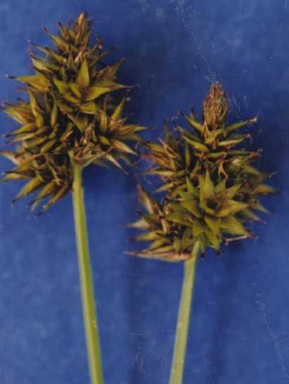 Carex pachystachya from Hurd, E.G., N.L. Shaw, J. Mastrogiuseppe, L.C. Smithman, and S. Goodrich. 1998. Field guide to Intermountain sedges. General Technical Report RMS-GTR-10. USDA Forest Service, RMRS, Ogden. Courtesy of USDA FS RMRS Boise Aquatic Sciences Lab. Cropped.